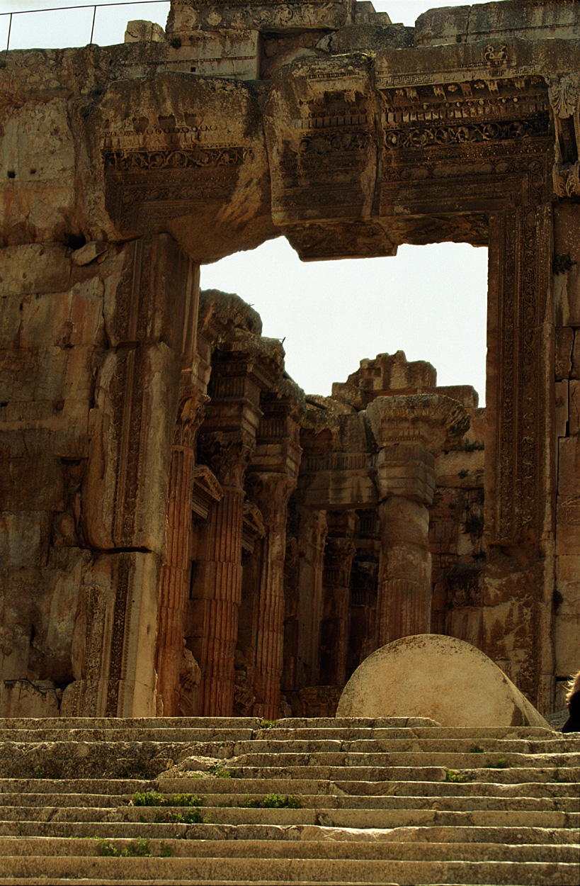 Baalbek, Entrance into the Bacchus Temple